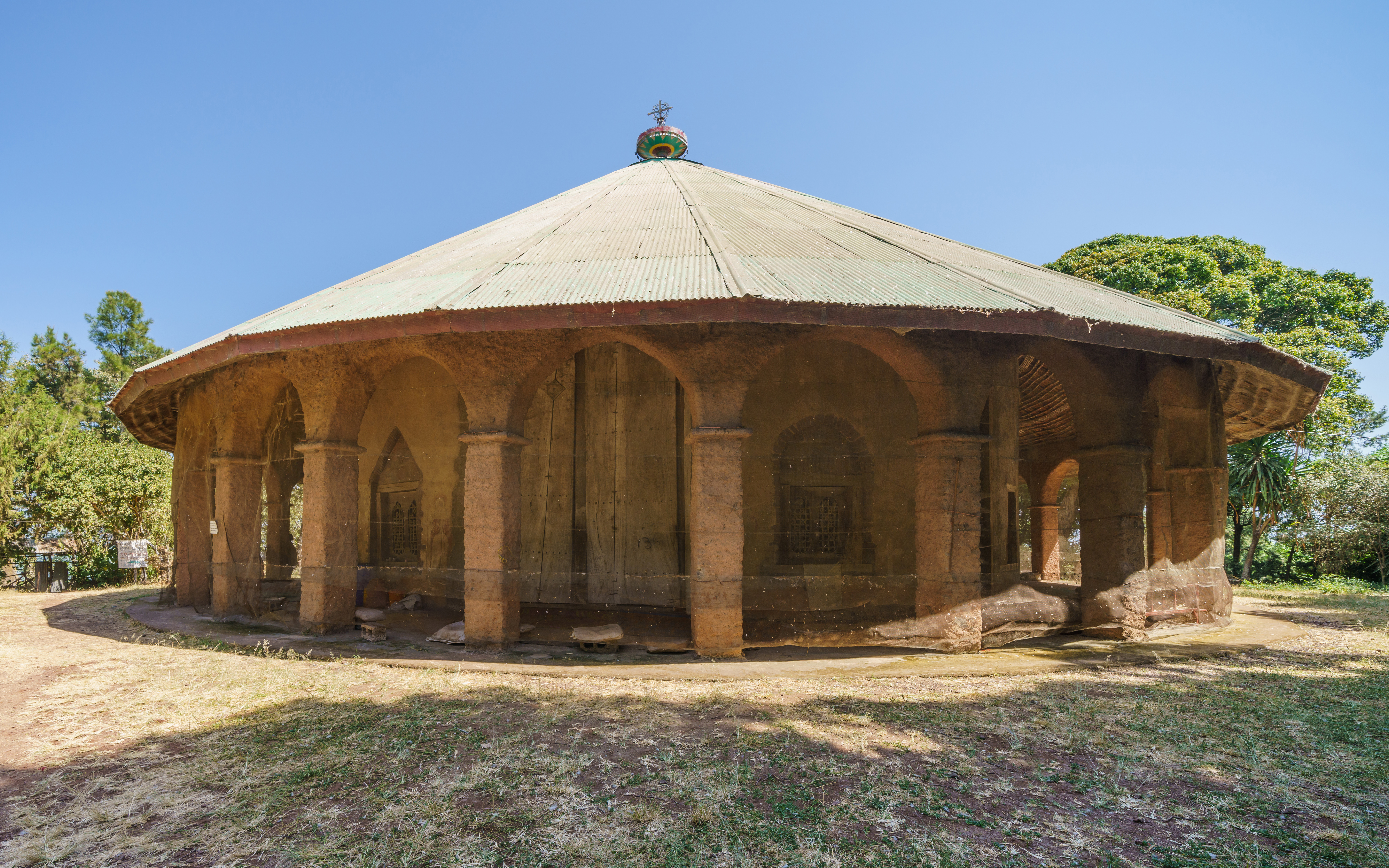 Kebran St. Gabriel Monastery – Lake Tana near Bahir Dar, Ethiopia